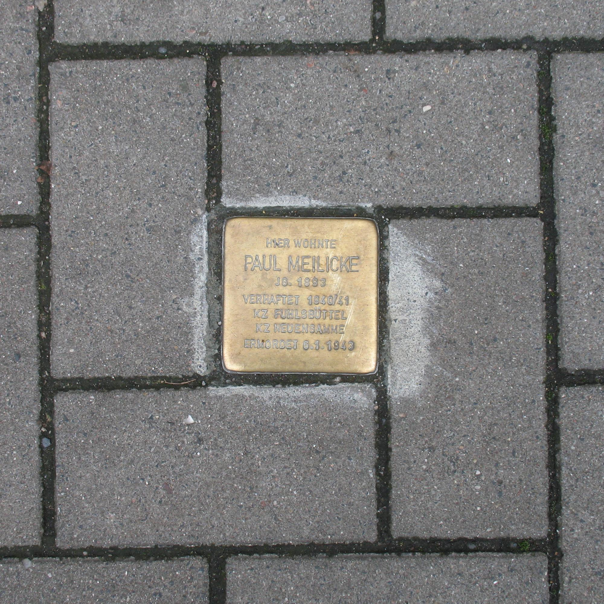 "Stumbling block" in Hamburg-Altona, Germany